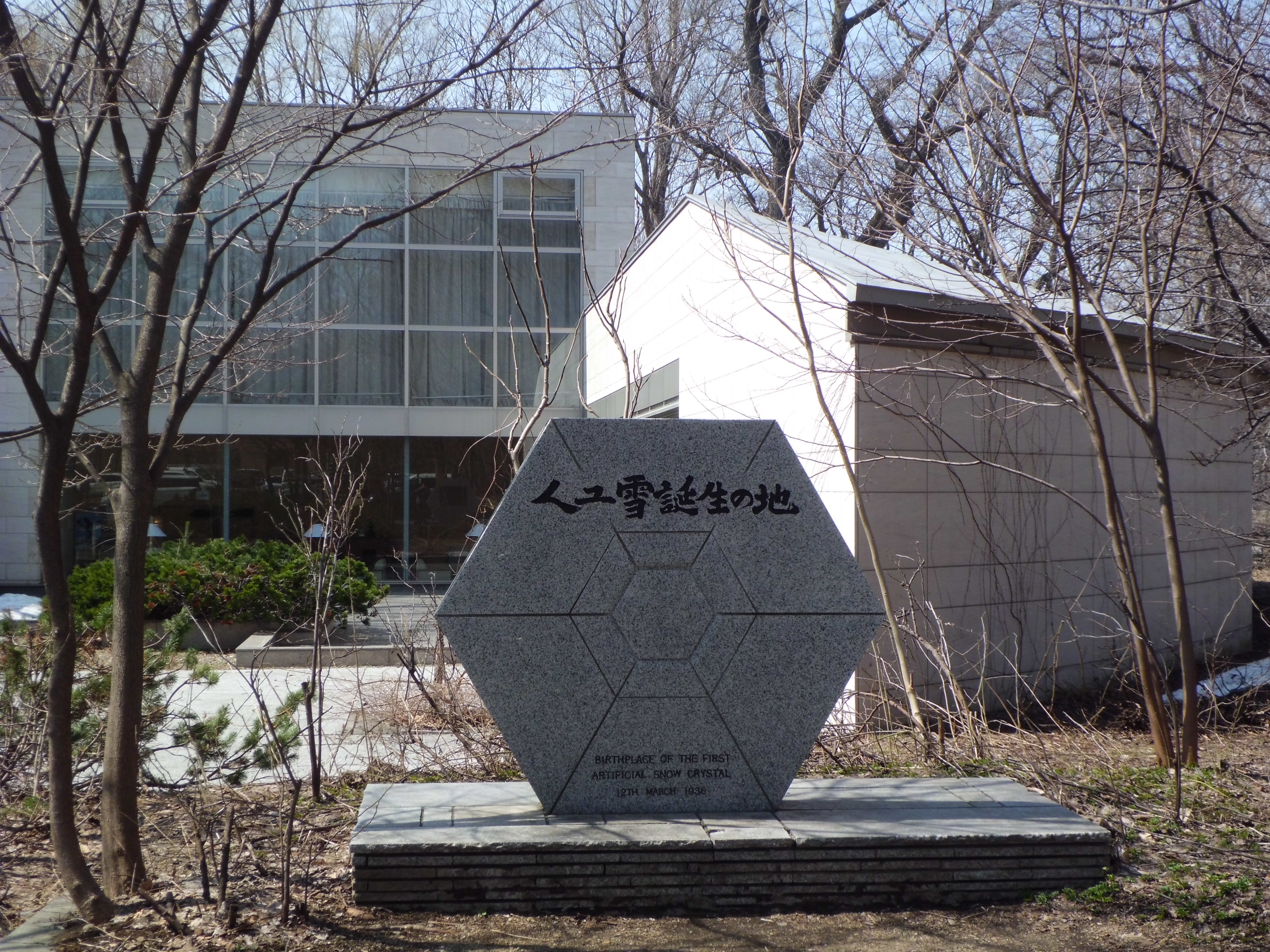 Birthplace of the first Artificial snow crystal